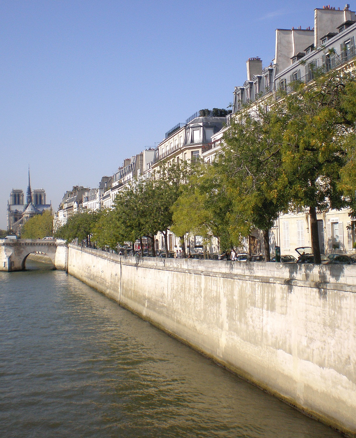 Quai de Bethune - Paris